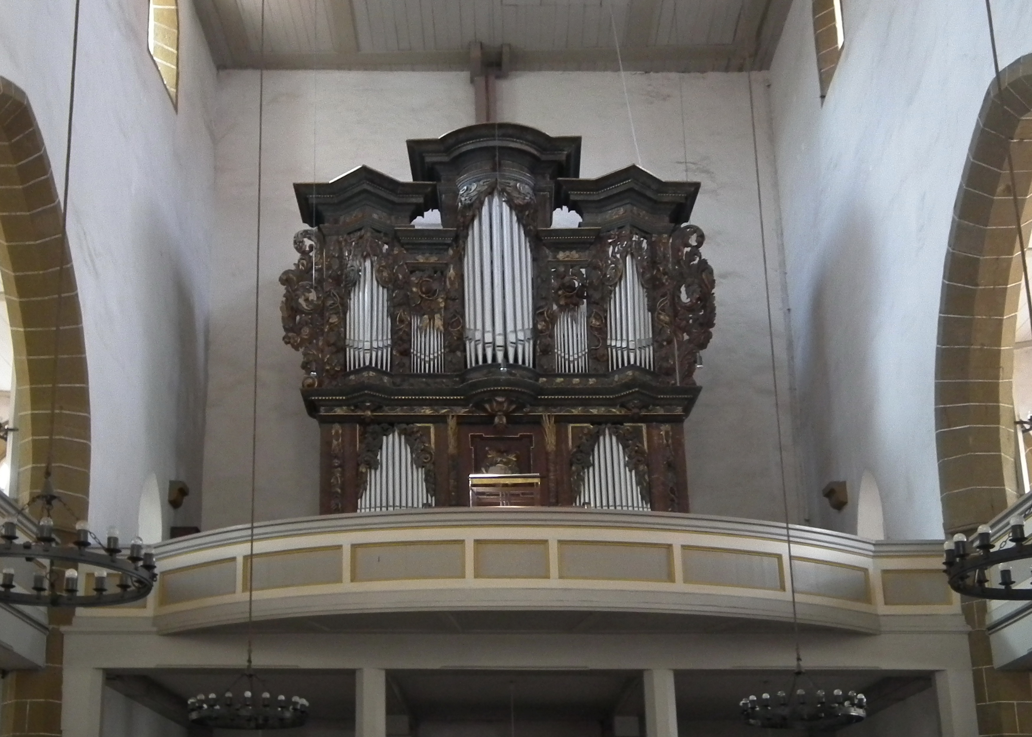 Kaufmannskirche Native nameKaufmannskircheLocationErfurt, GermanyCoordinates50° 58′ 41″ N, 11° 02′ 06″ E Authority control VIAF: 138607402 LCCN: n2009057986 GND: 4724038-6 WorldCat